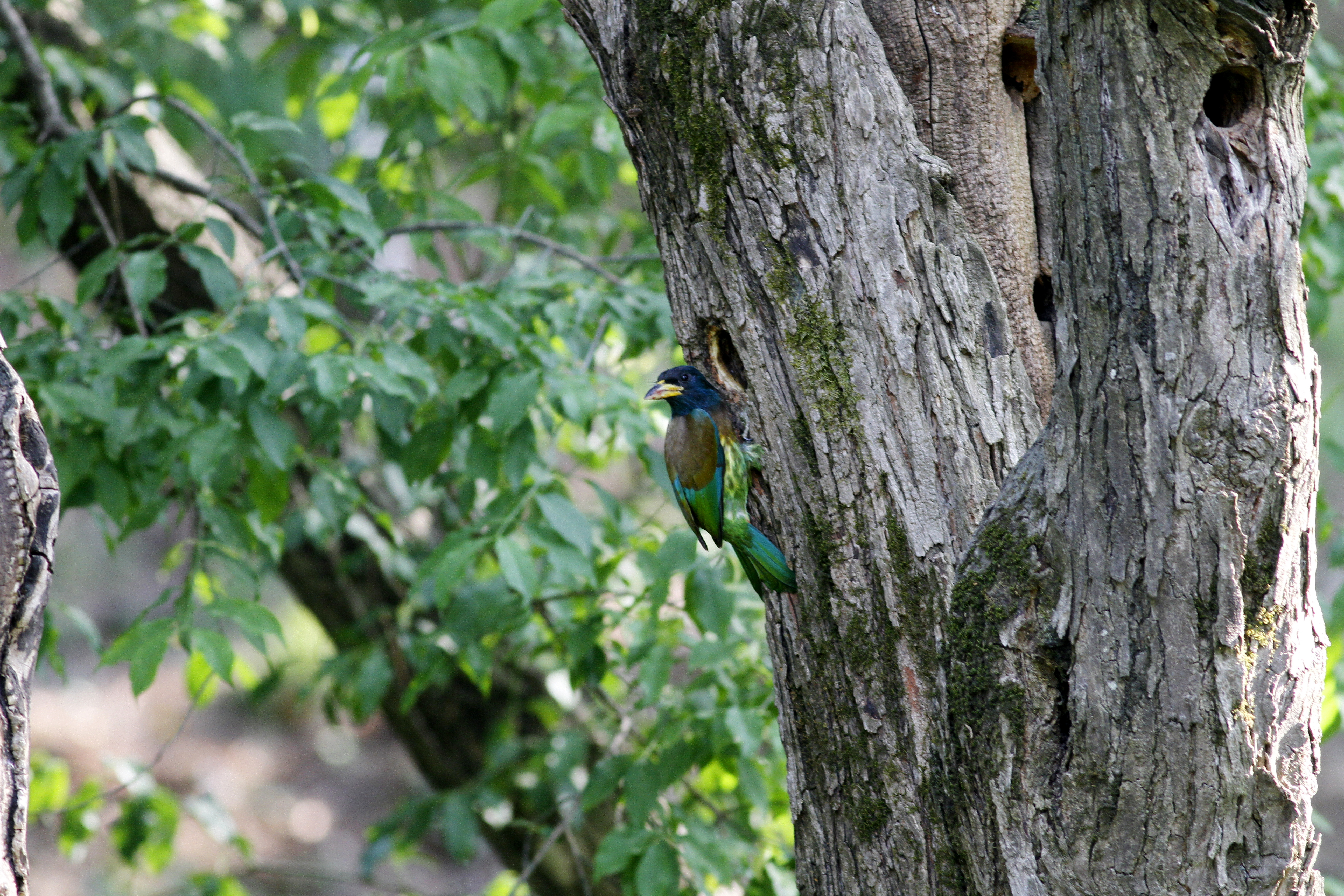 Captured in action